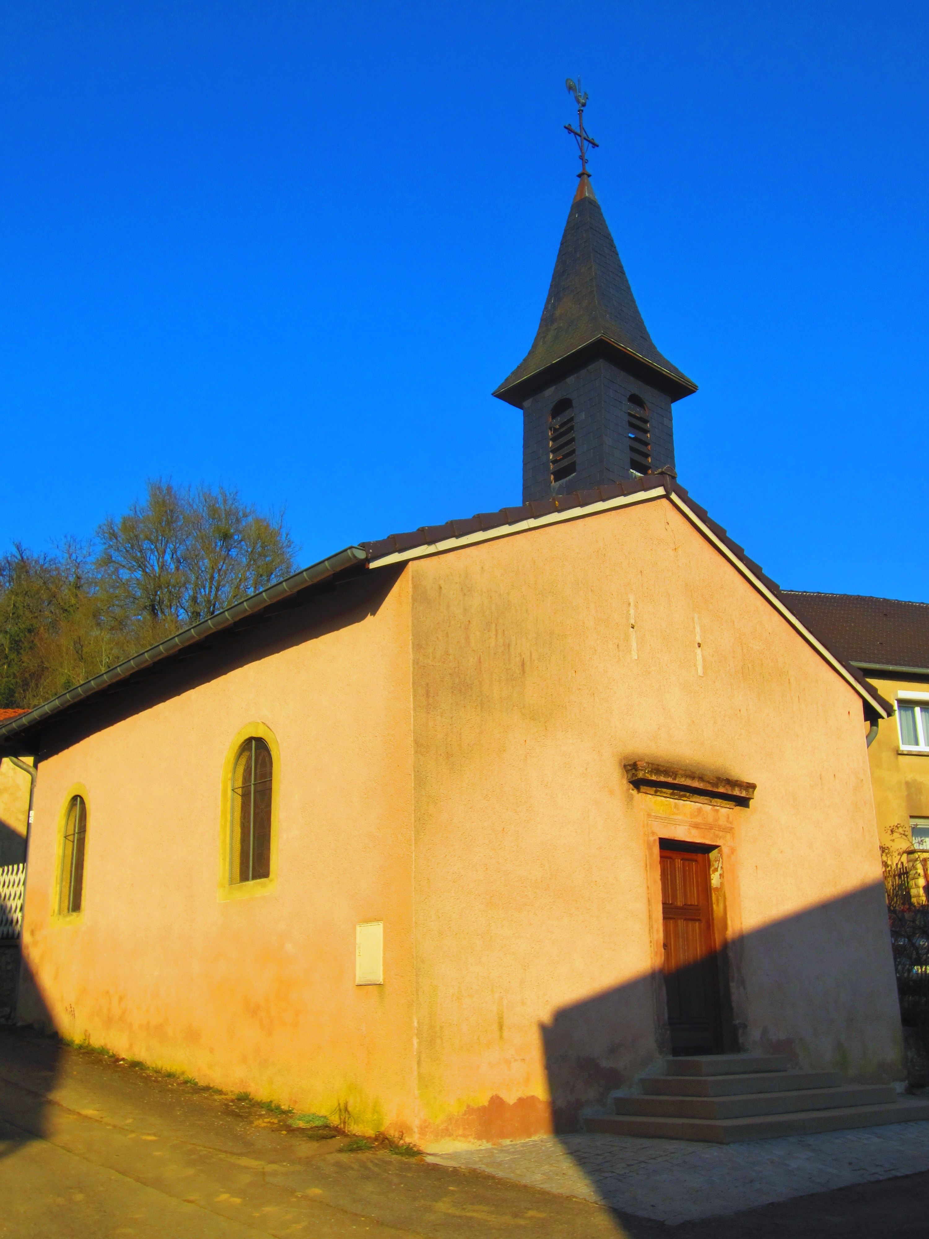 Flatten Launstroff chapel